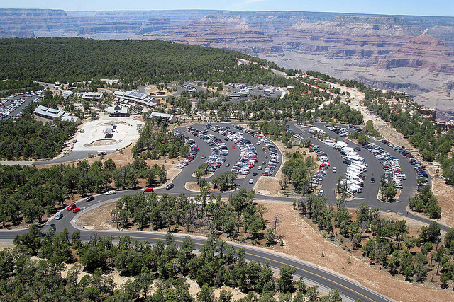 Grand Canyon Visitor Center Plaza and Transit Center, near Mather Point — on the South Rim of the Grand Canyon.